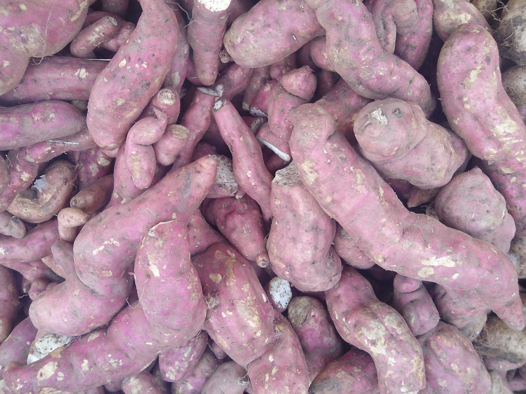 Sweet Potato (Ipomoea batatas) of Salem